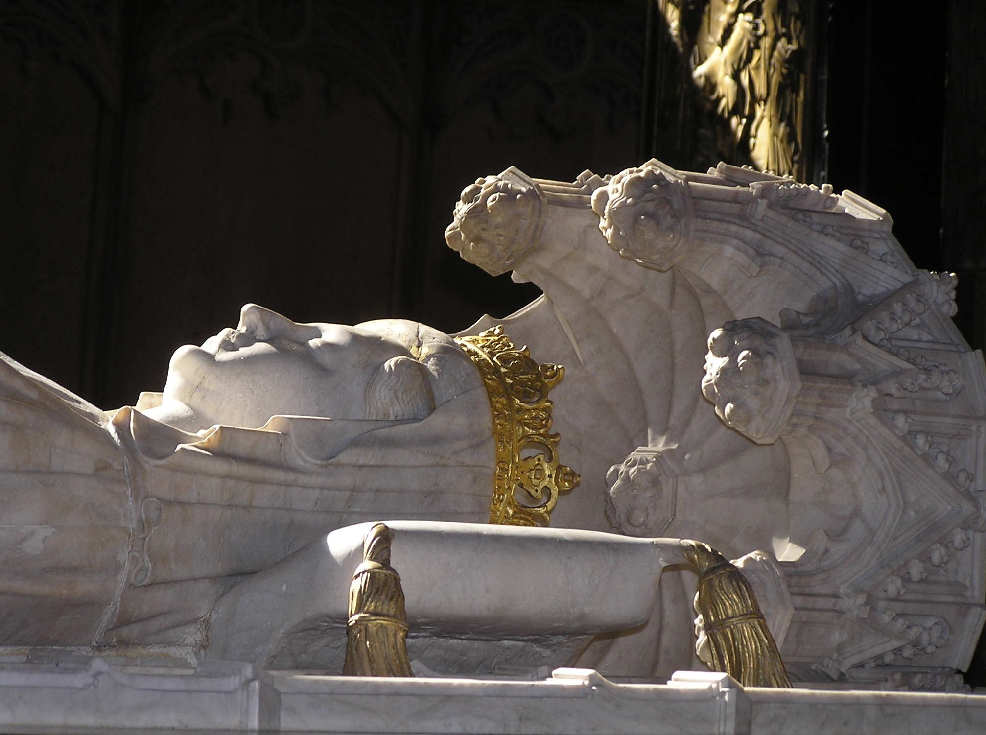 Margaret I of Denmark – detail of her famous tomb in Roskilde Cathedral